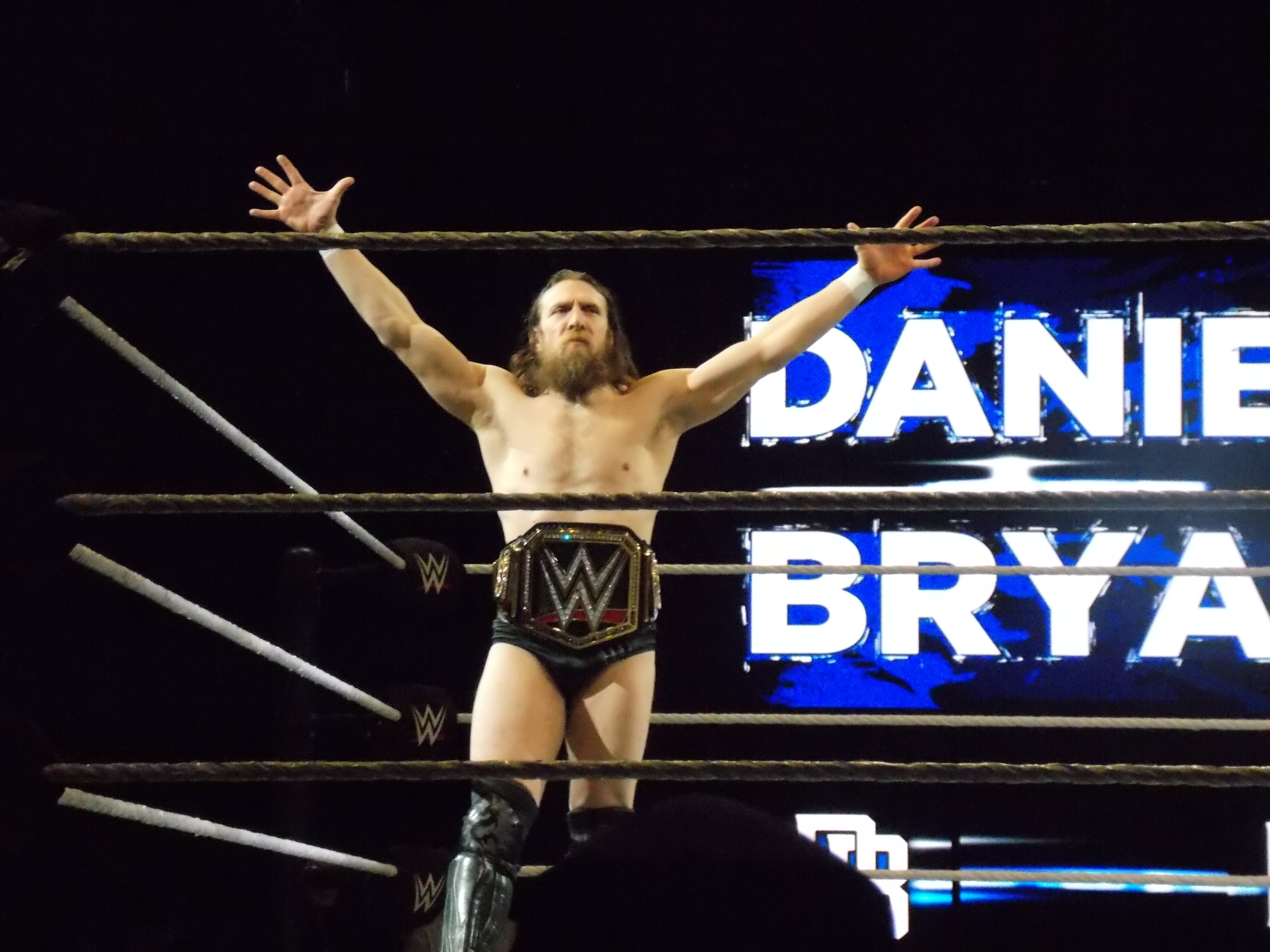 WWE Champion Daniel Bryan at a WWE Live Event House Show in Omaha, Nebraska, USA on Sunday, January 20, 2019